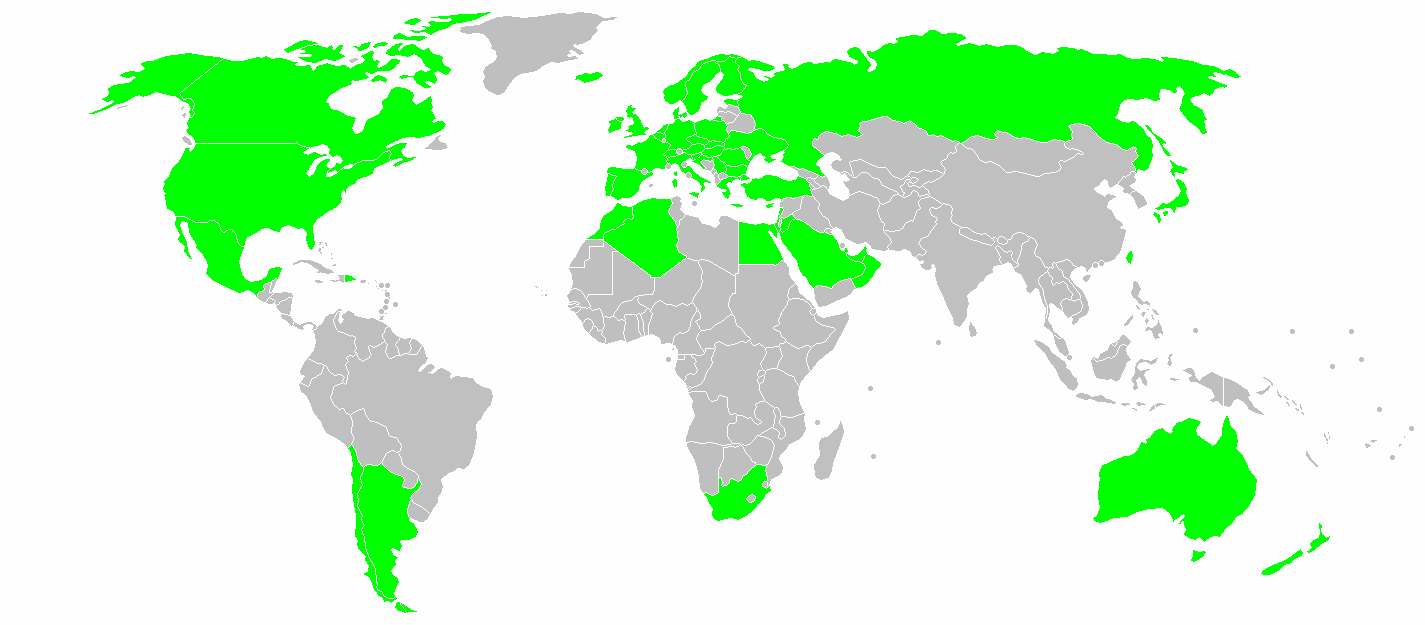 Shows Alfa Romeo dealers worldwide in 2017